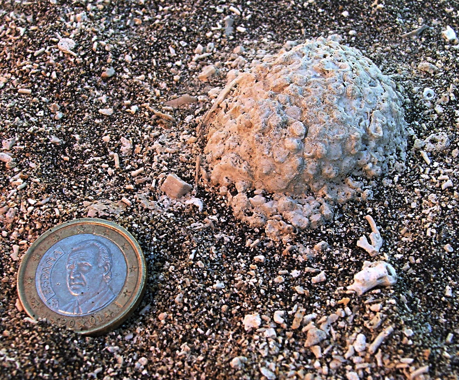 From El Plomo, Agua Amarga basin, Mesinnian of southern Spain.